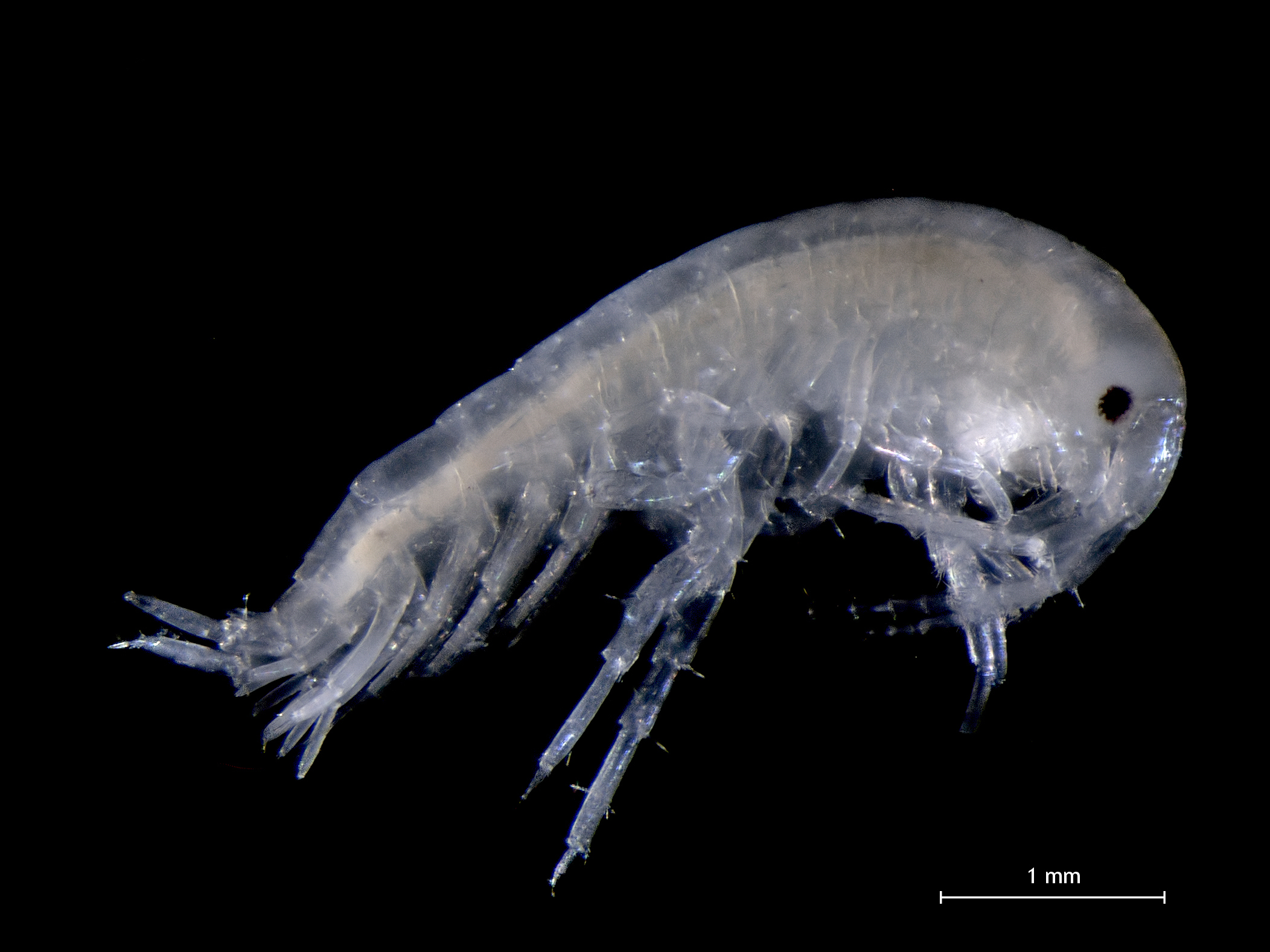 Benthic amphipod, taken with a Leica DFC 490 camera mounted on a Leica M205C binocular microscope. This is an intertidal and subtidal coastal species. Collected in 2011 at the port of Zeebrugge, Belgium. Geo-location not applicable as the picture was taken in the lab.Length = ~5 mmFocus stacking of 29 pictures.